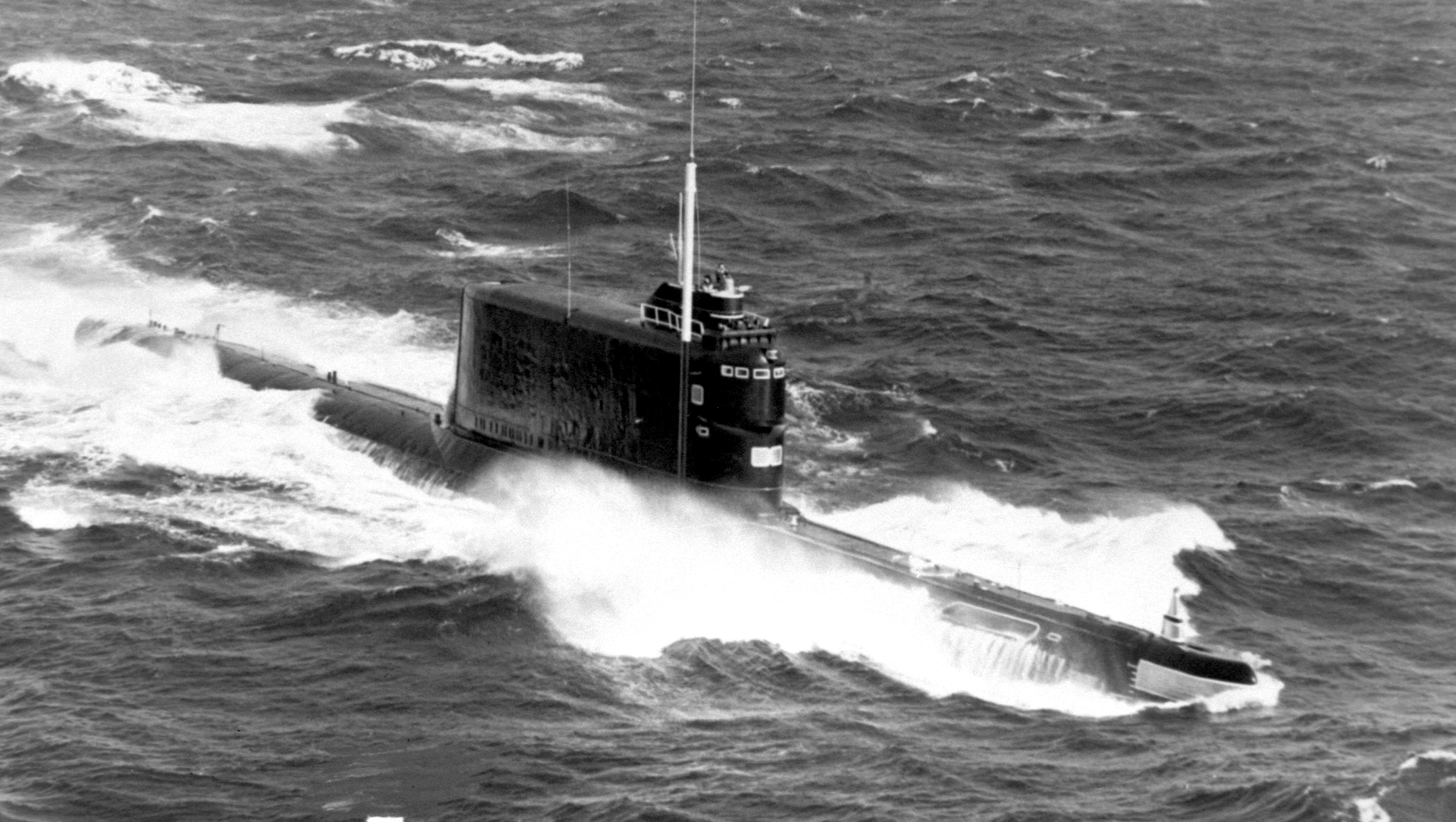 An aerial starboard bow view of a Soviet Golf II class ballistic missile submarine underway. Date Shot: 1 Oct 1985